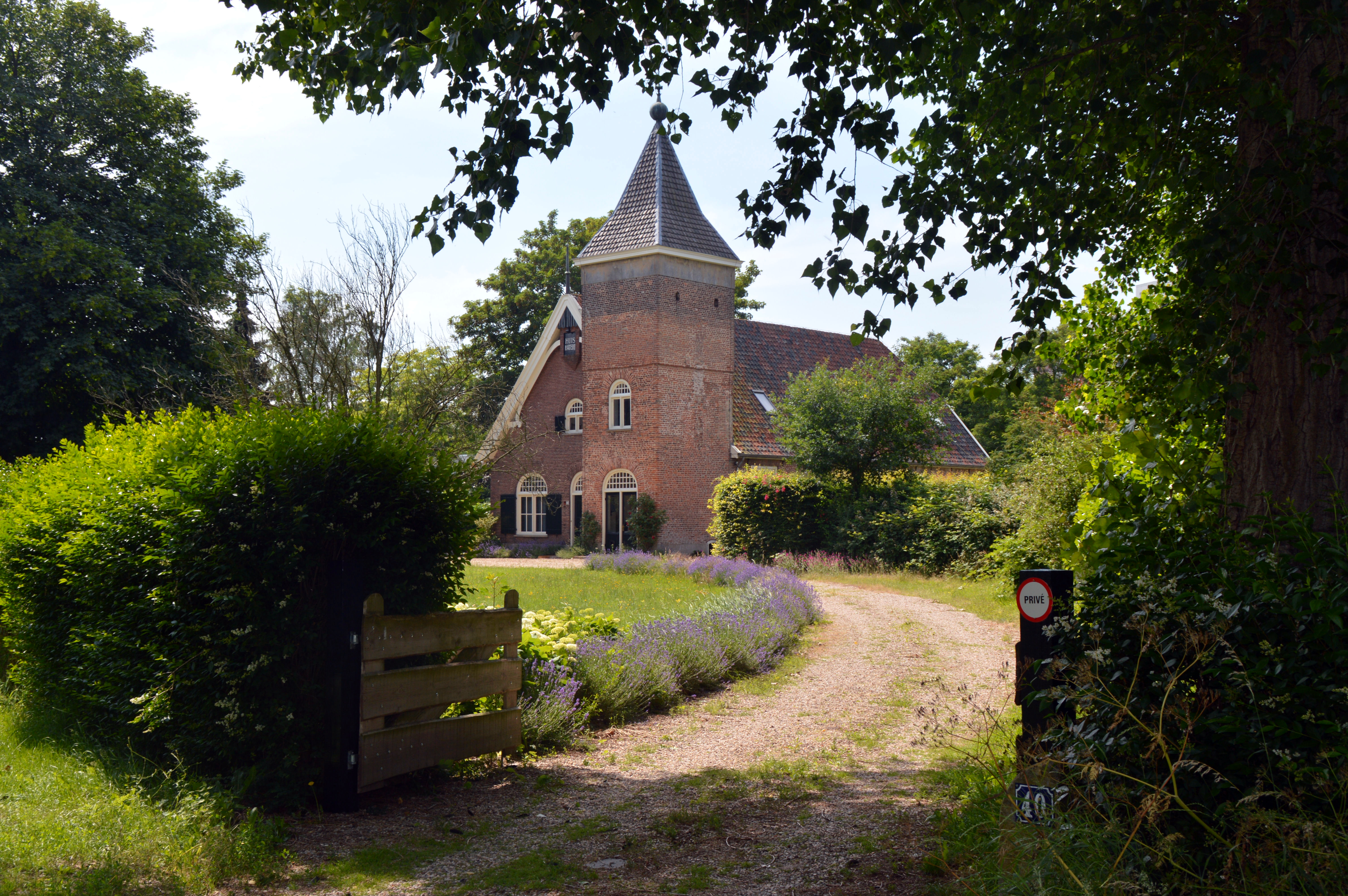 House Hatert, Hatert, Nijmegen c. 1300